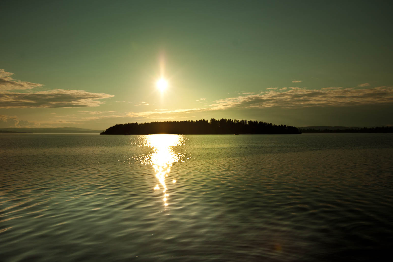 Utøya, Photo: Henrik Lied, NRK.